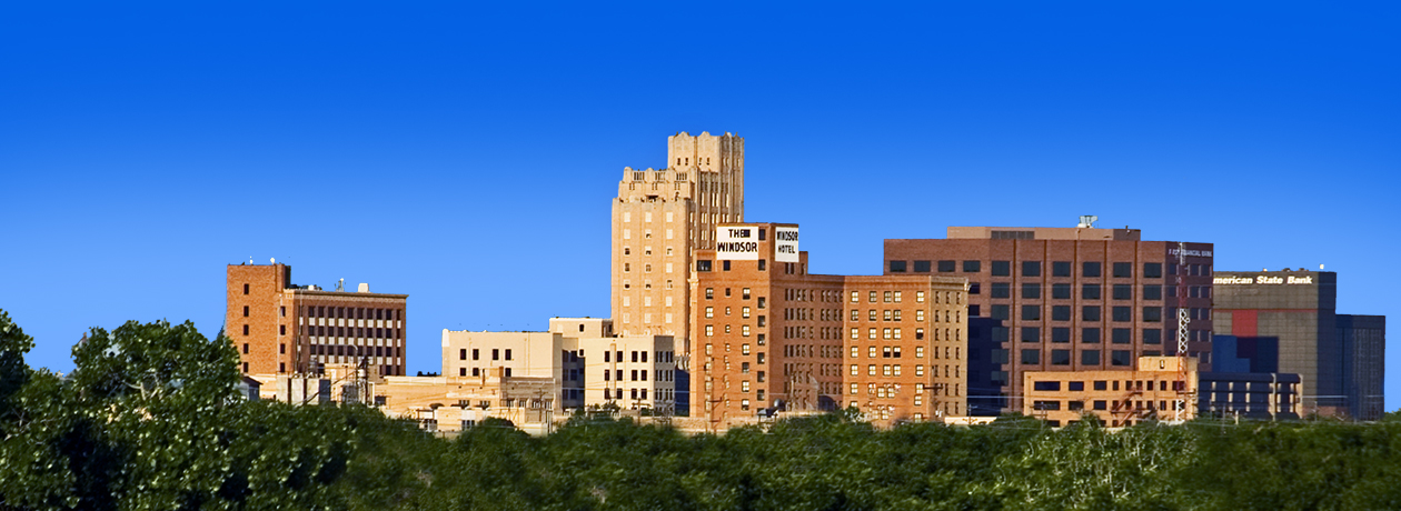 image